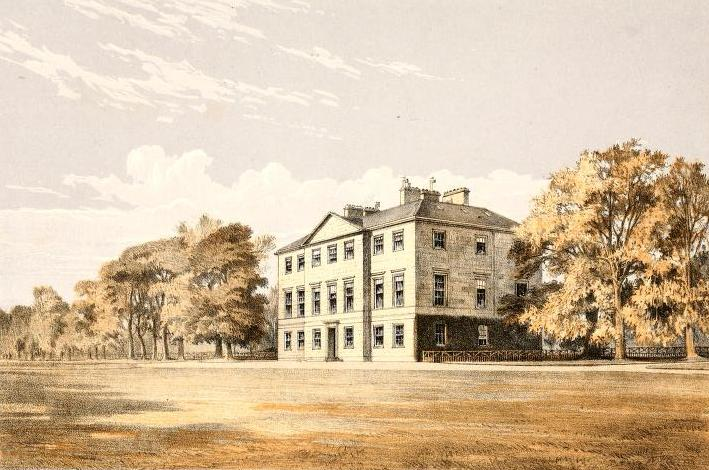 Tarbat House, Ross-Shire, built in 1787